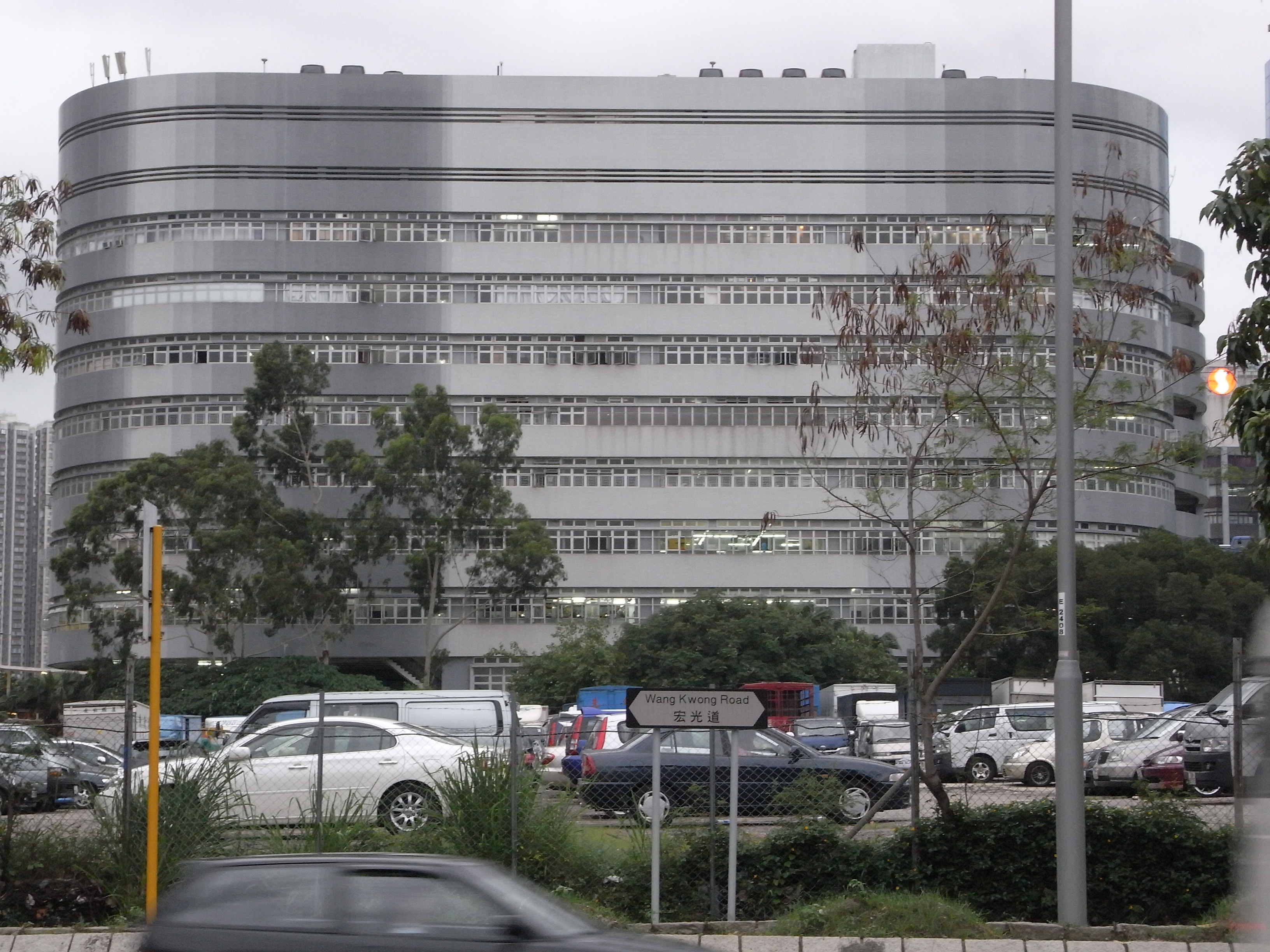 九龍灣 宏光道望 大昌貿易行汽車服務大廈